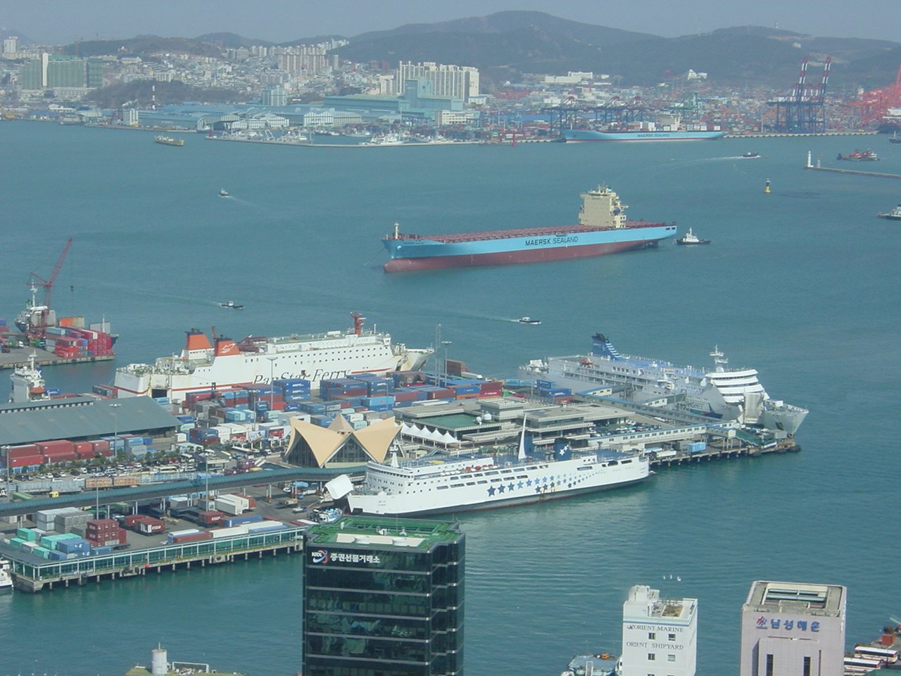 Busan port seen from Busan tower, the ferry on the other side is bound for Osaka, the ferry on the right side is bound for Shimonoseki, and the ferry on this side is bound for Hiroshima, which was abolished.